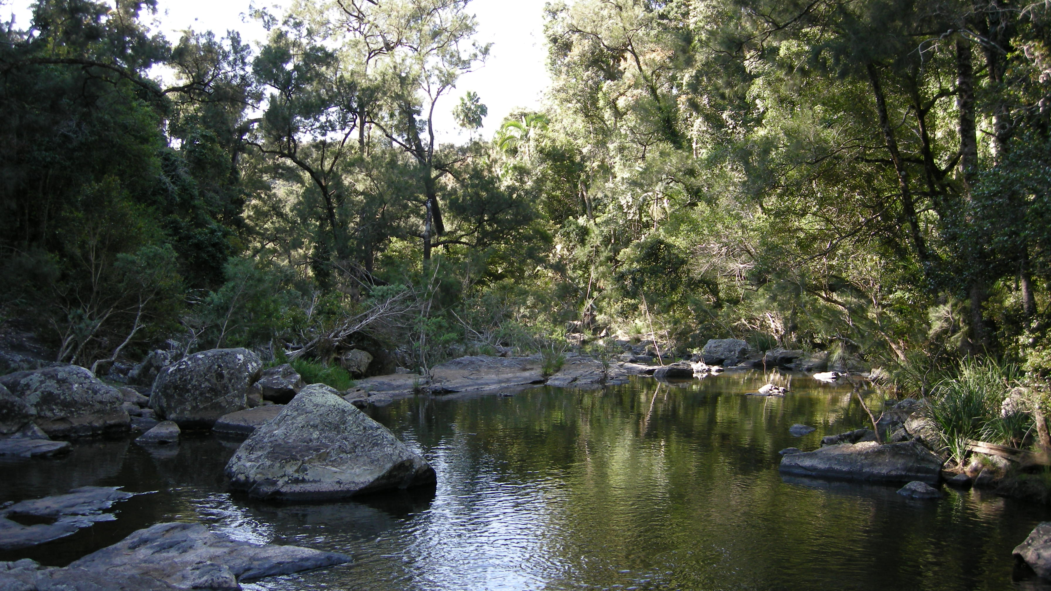 Eungella National Park.